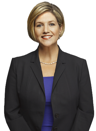 Andrea Horwath, leader of the Ontario New Democratic Party.